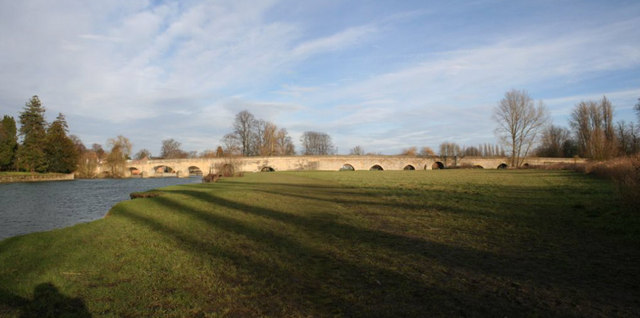 Wallingford Bridge This is a stitched photo showing the entire length of Wallingford bridge